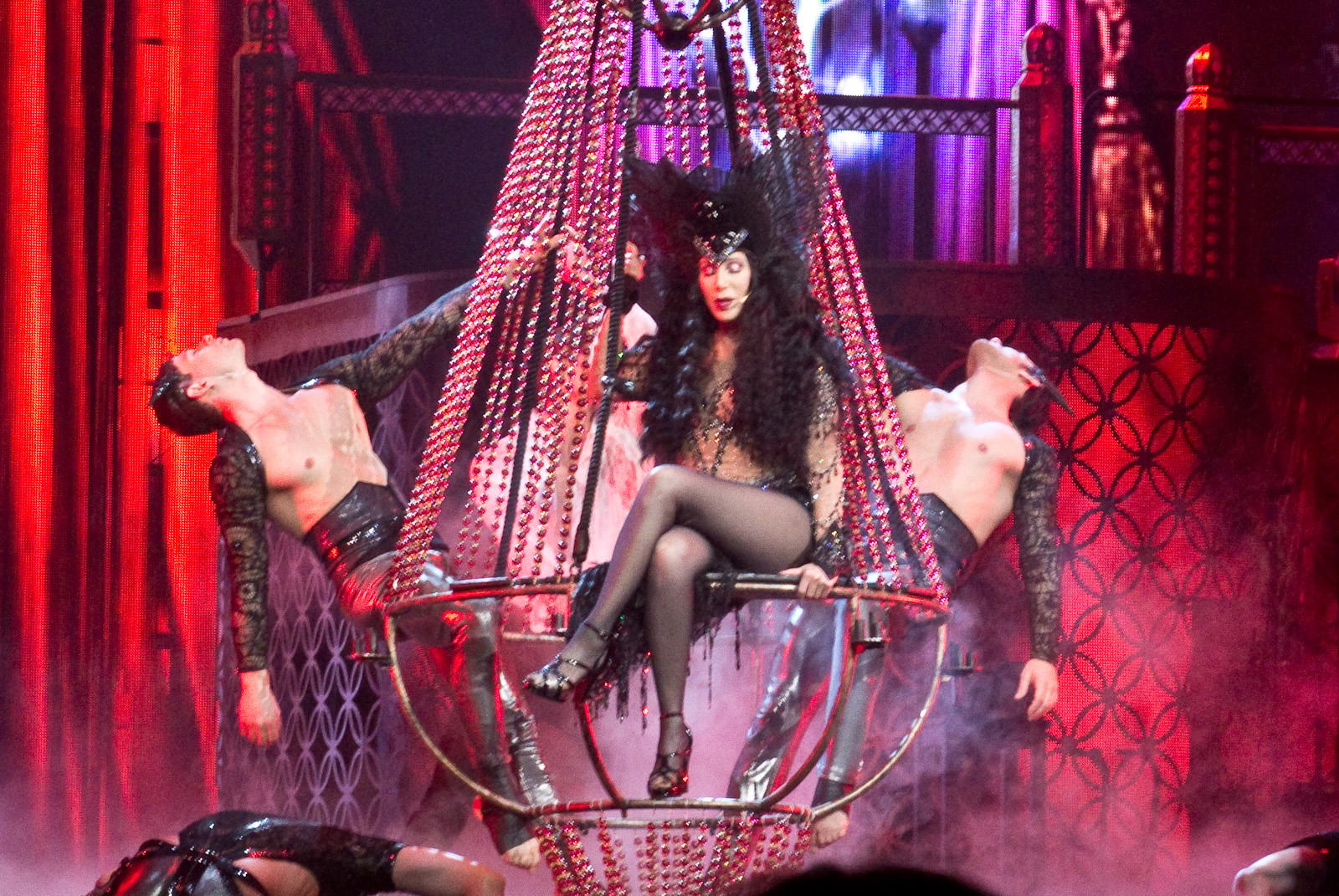 Cher performing live in concert, 2014.